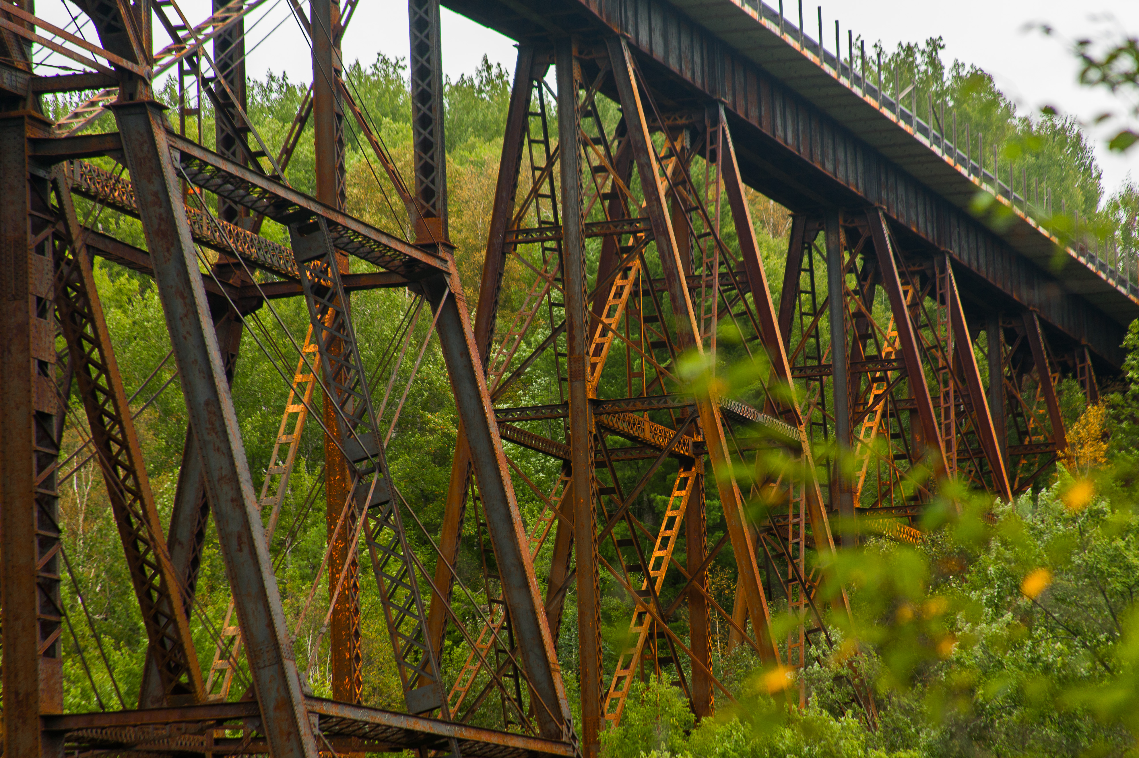 This railroad bridge carries the BNSF Hinckley Subdivision above the Kettle River in Sandstone, Minnesota. It replaced a previous wooden bridge that was destroyed in the great Hinckley Fire of 1874.